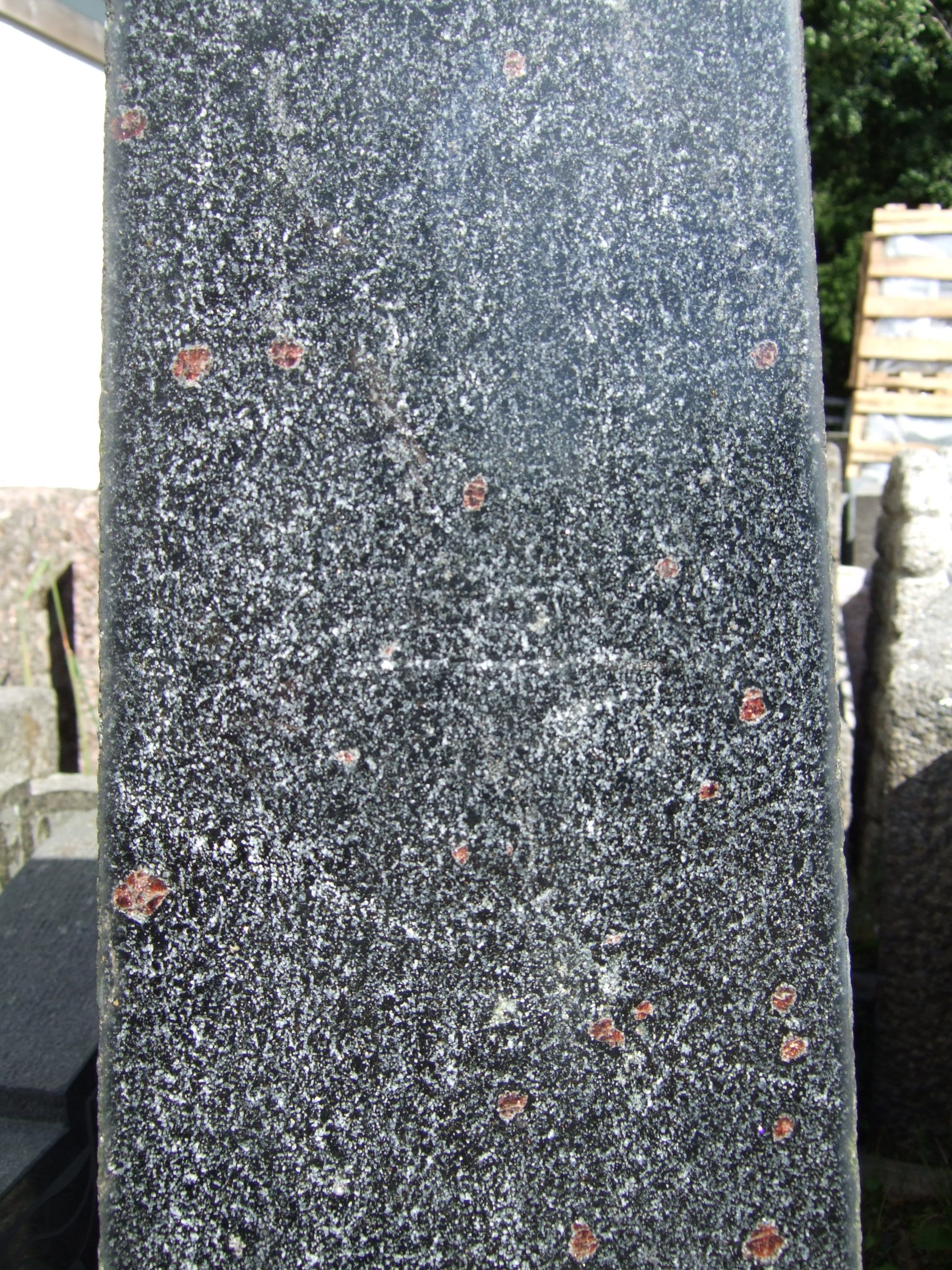 Plaice gneiss, Fevik, Norway